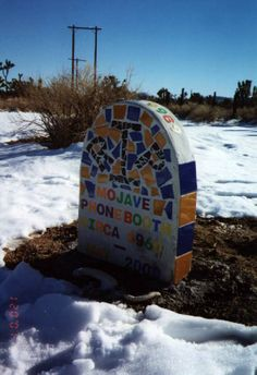 The gravestone from the booth that was soon removed